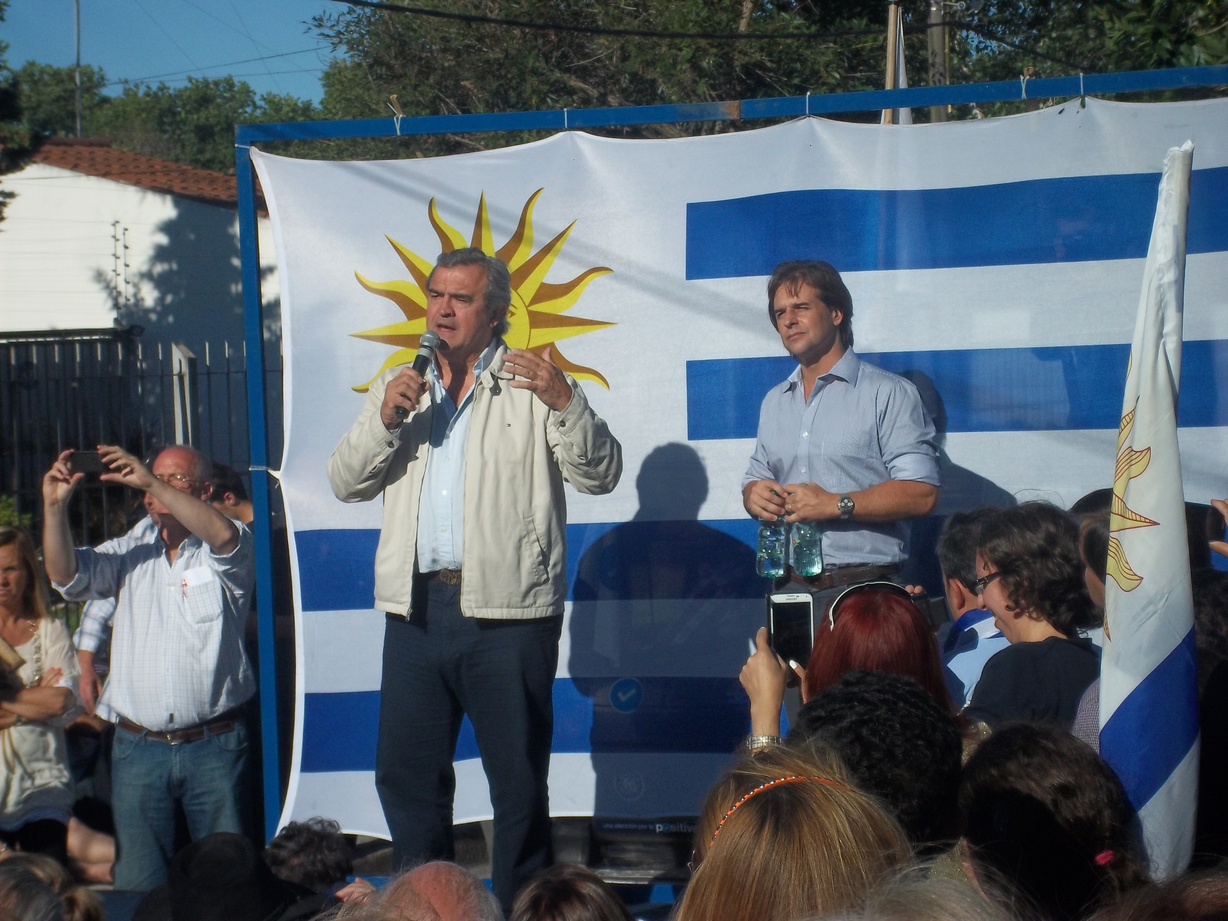 Jorge Larrañaga (speaking) and Lacalle Jr. at an event in Villa Colón (Montevideo), on November 22, 2014.